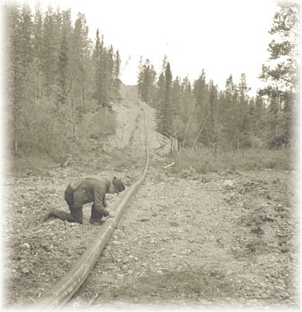 Inspecting the Canol pipeline.